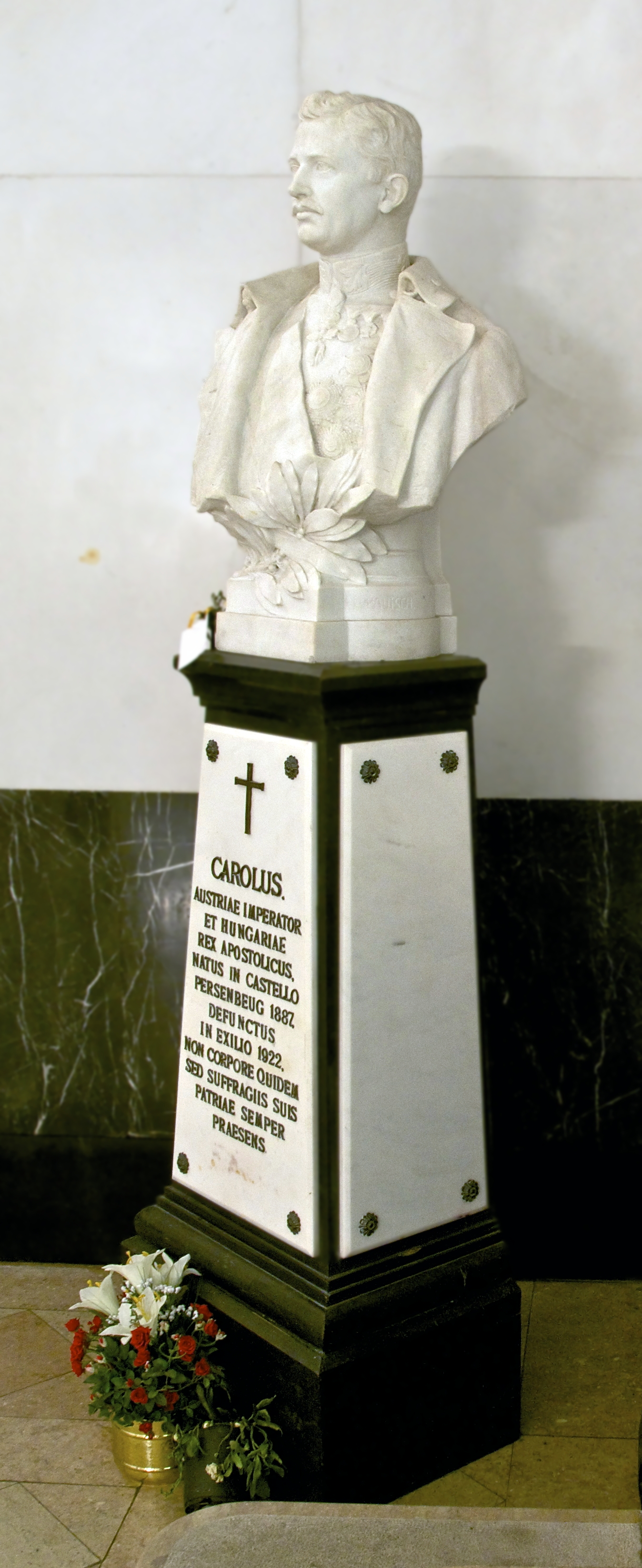 Marble bust of Emperor Charles I. of Austria (king Charles IV of Hungary), last sovereign of the austro-hungarian empire, Kaisergruft, Vienna, Austria.